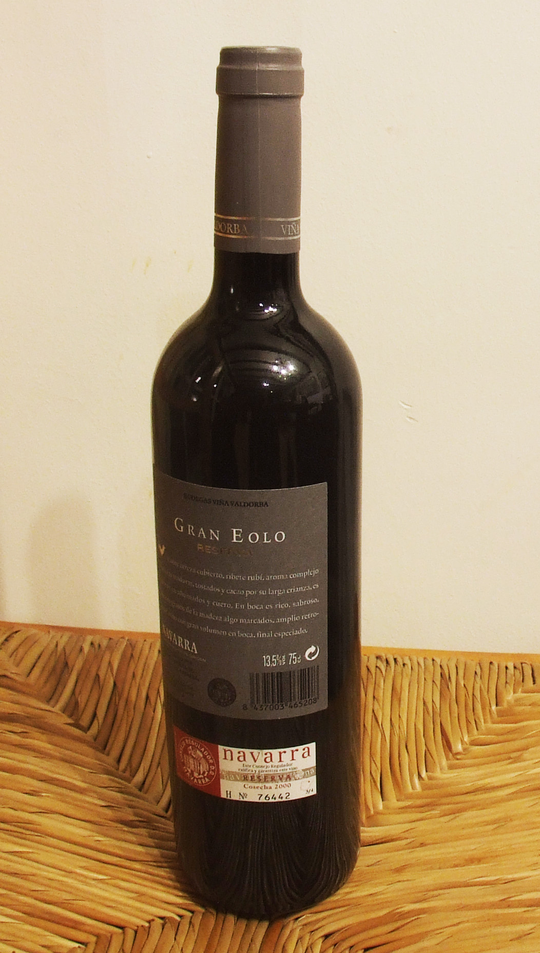 Gran Eolo Navarra black wine.